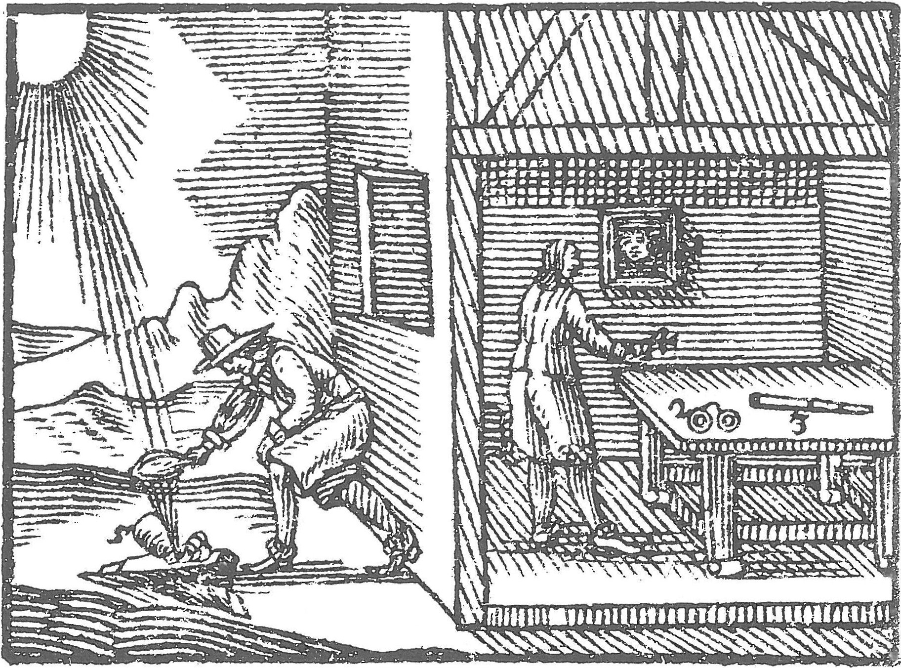 Author Johann Amos Comenius Start this Book TitleOrbis sensualium pictus